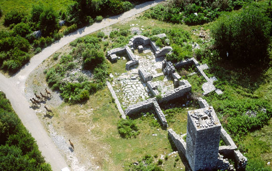 Remains of the medieval Prečista Krajinska Church, at the village of Ostros near the town of Bar, south Montenegro